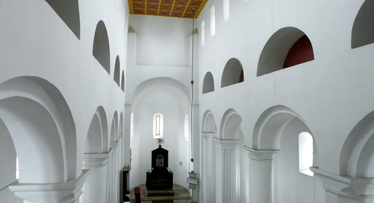 Interior of the Lutheran church in Herina (Münzdorf, Harina), Romania.